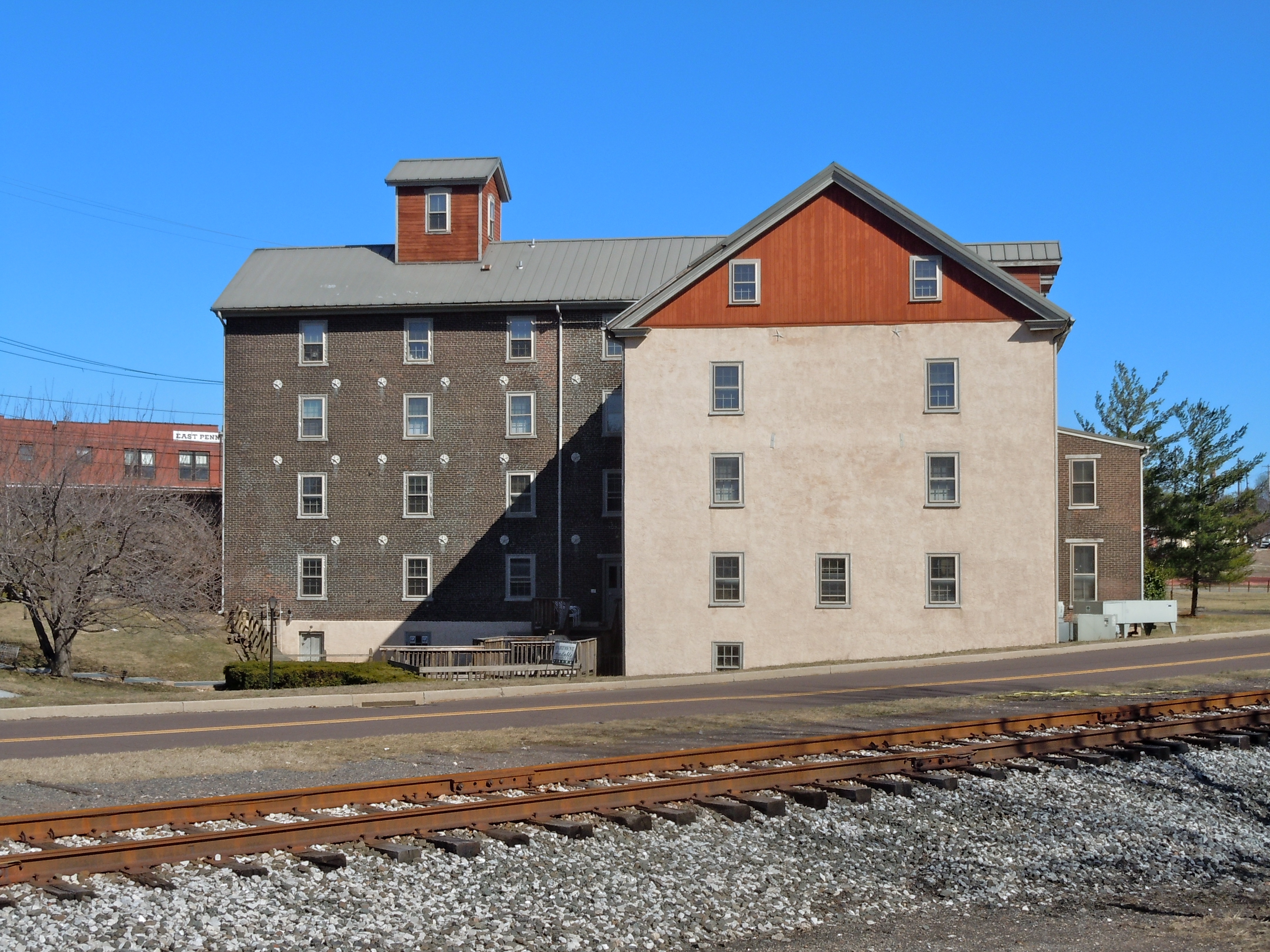 Pottstown Roller Mill on the NRHP since October 10, 1974. Located at South (college) and Hanover Streets, in Pottstown, Montgomery County, Pennsylvania. First built 1724, rebuilt several times including 1849 and 1856.